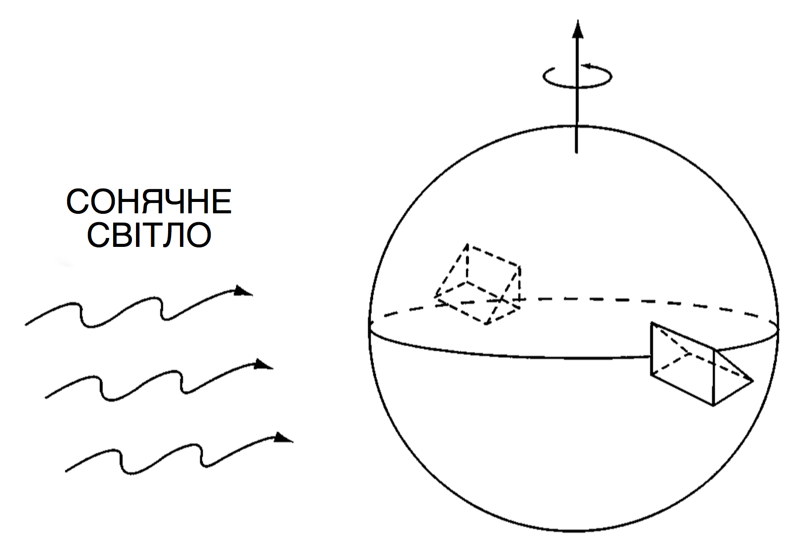 Rubinkam Propeller